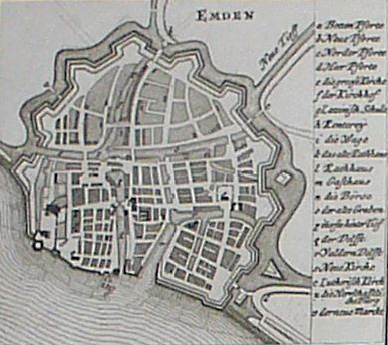 Map of Emden 1730